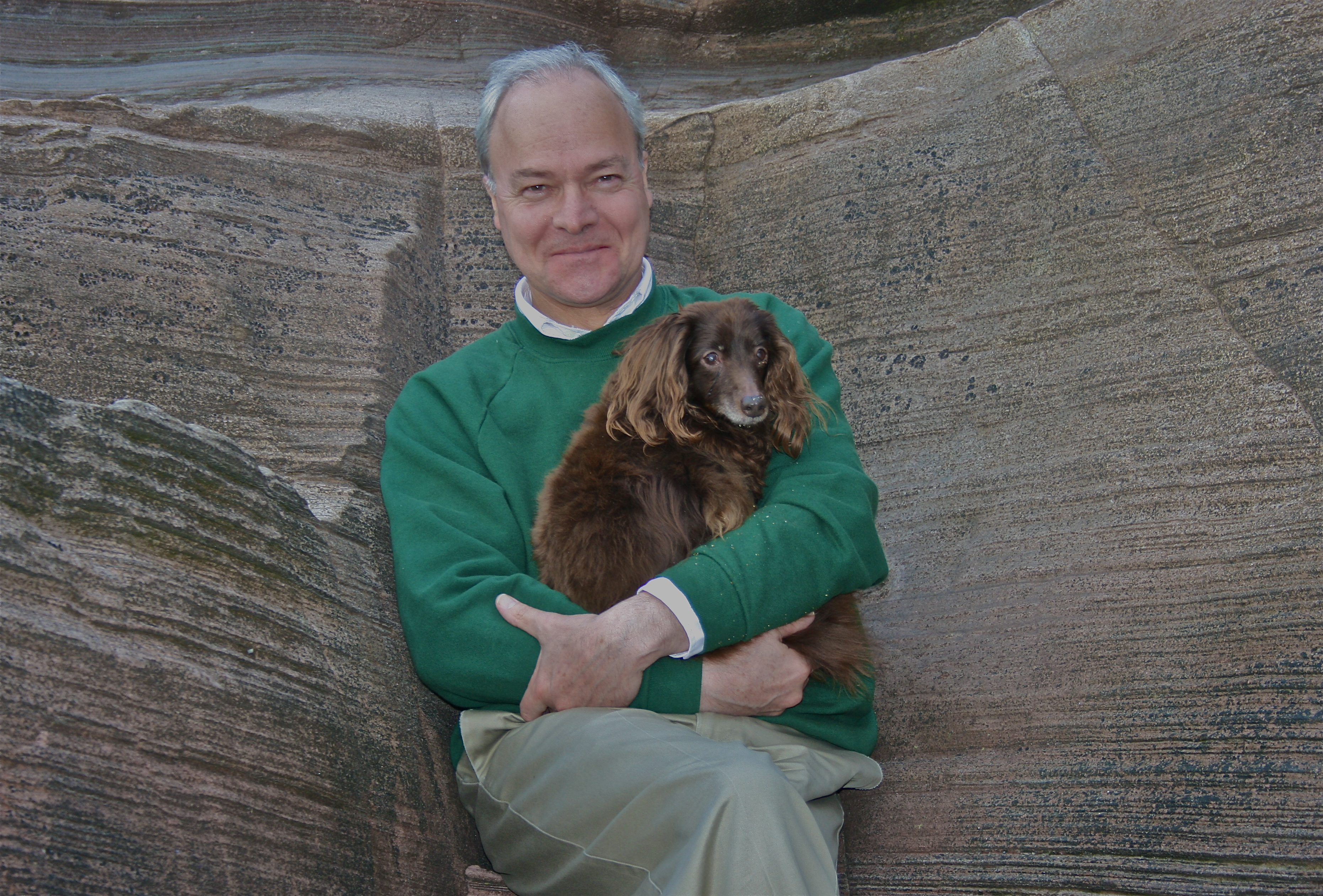 Image of Iain Torrance and Cassiopea